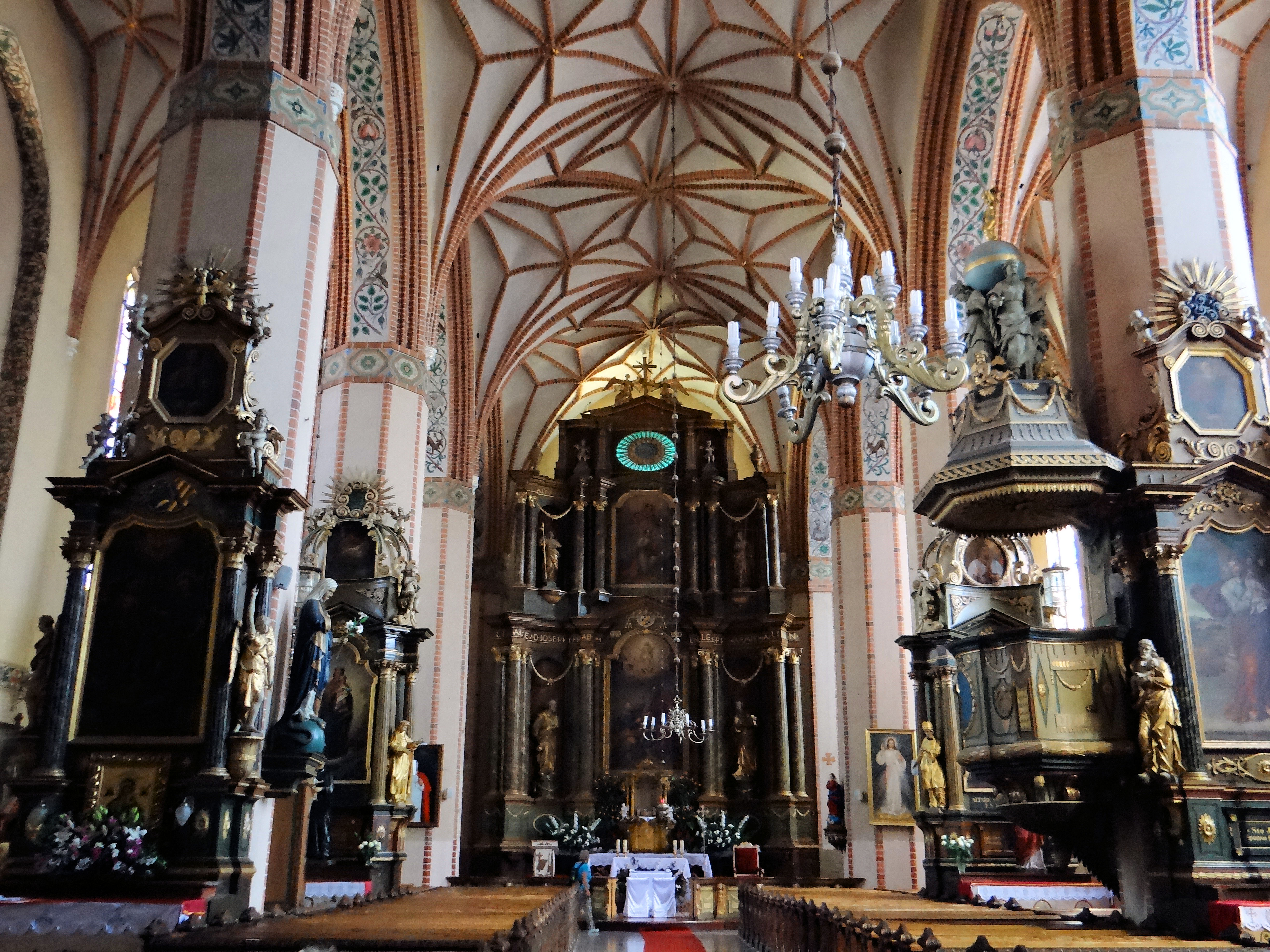 Interior of Church of SS. Peter and Paul in Reszel